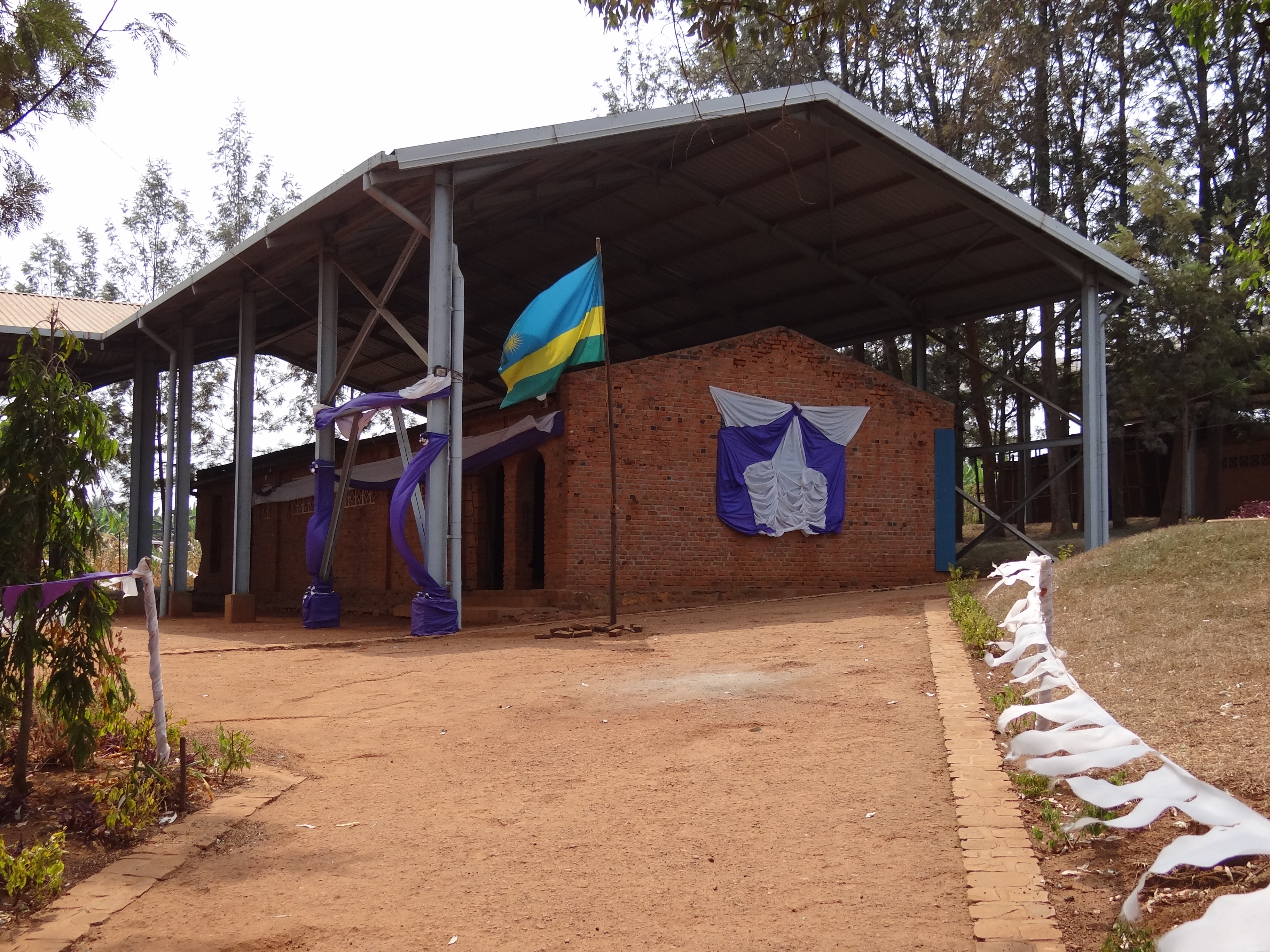 Exterior of Ntarama Genocide Memorial Site - Rwanda - 01